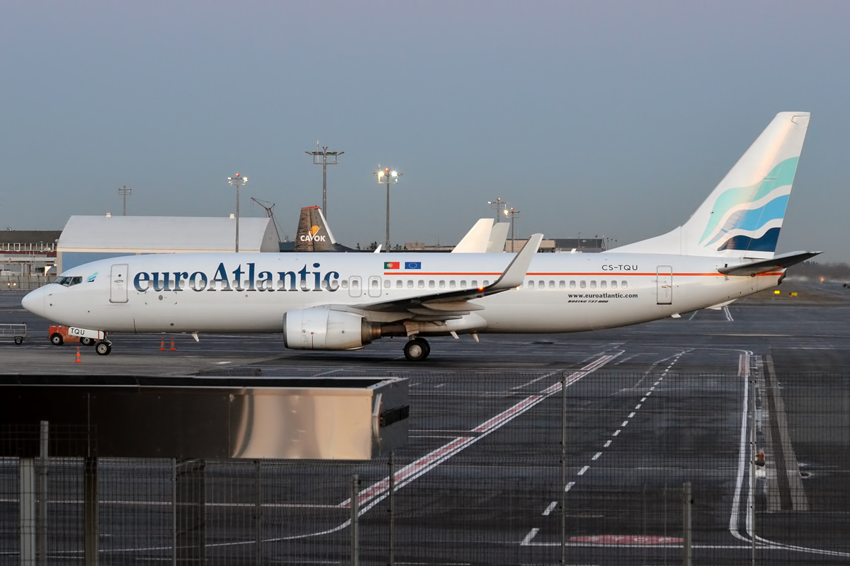 EuroAtlantic Airways, CS-TQU, Boeing 737-8K2